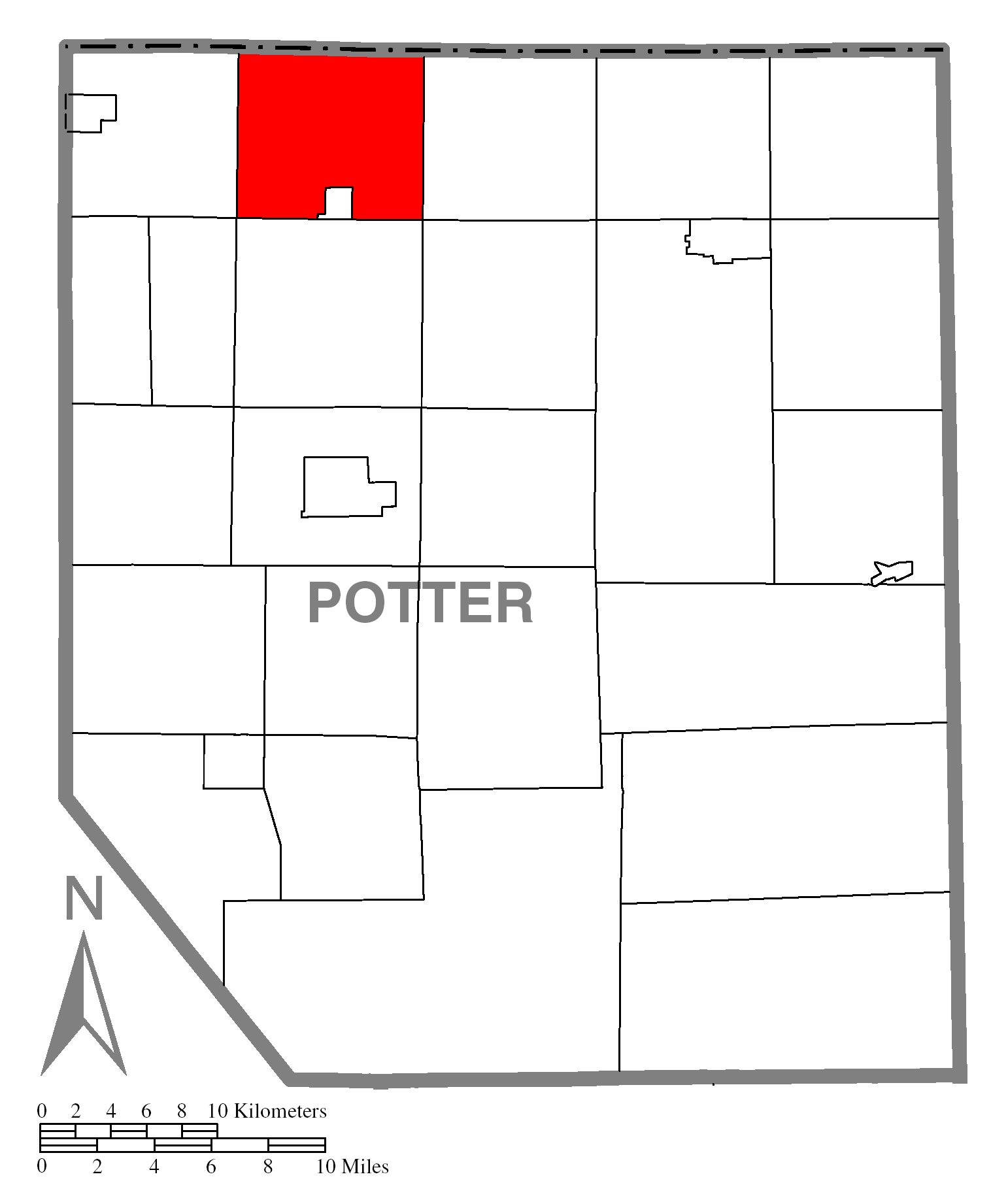 A map of Potter County showing Oswayo Township, Pennsylvania (alternate) highlighted on the map.